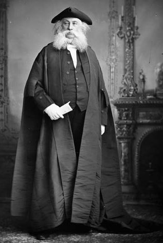 MacPherson, David Lewis Hon. Sir (Senator) Minister without Portfolio. (Wearing robes of Speaker of the Senate) Sept. 12, 1818 - Aug. 16, 1896